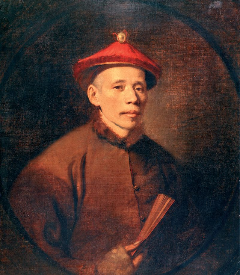 Tan Che-qua, oil on canvas, by John Hamilton Mortimer (1740–1779), 1770 or 1771 (RCSSC/P 242)